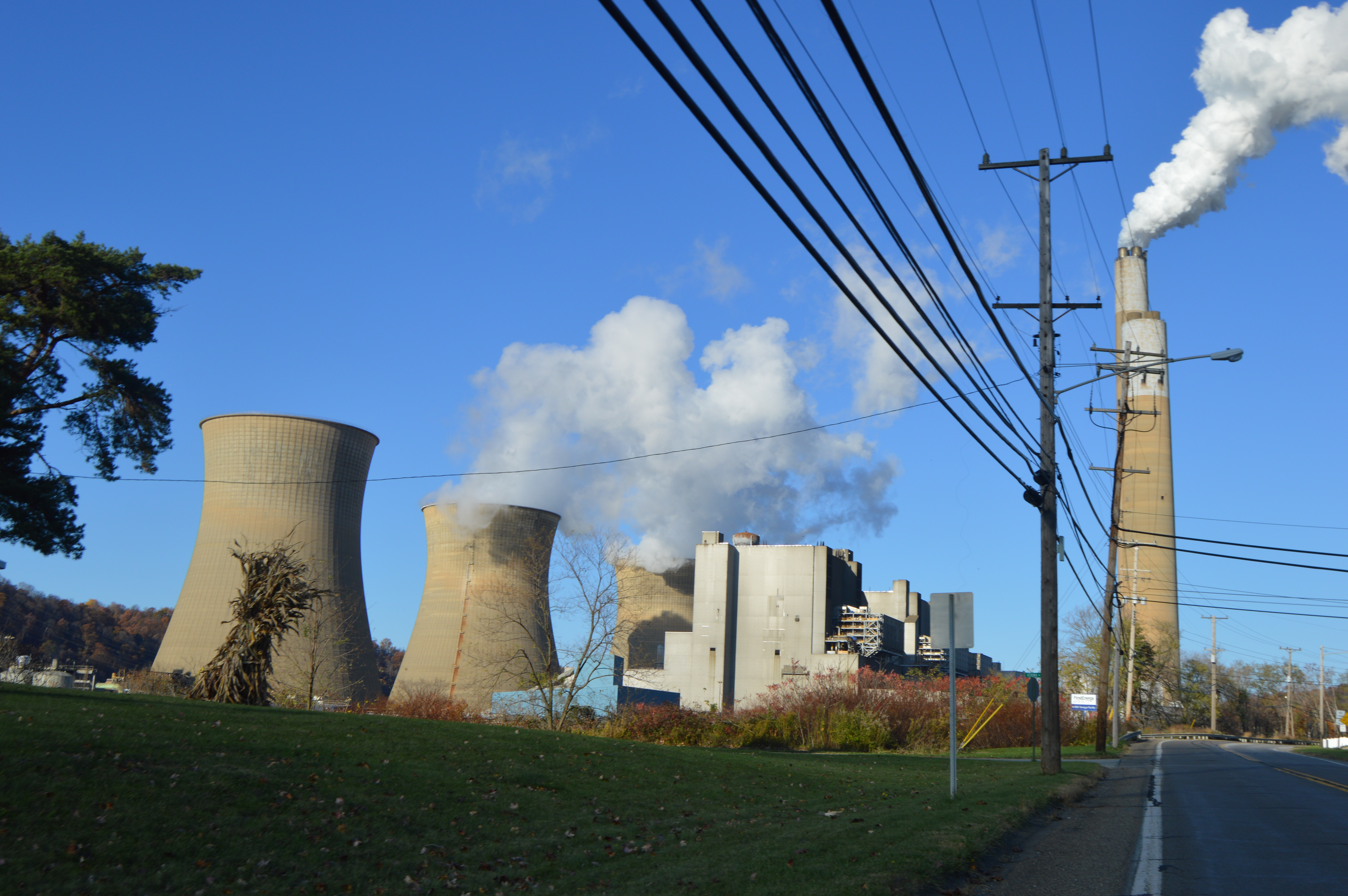 View from the south of cooling towers at the Bruce Mansfield Power Plant, seen from Shippingport Road in Shippingport, Pennsylvania, United States.